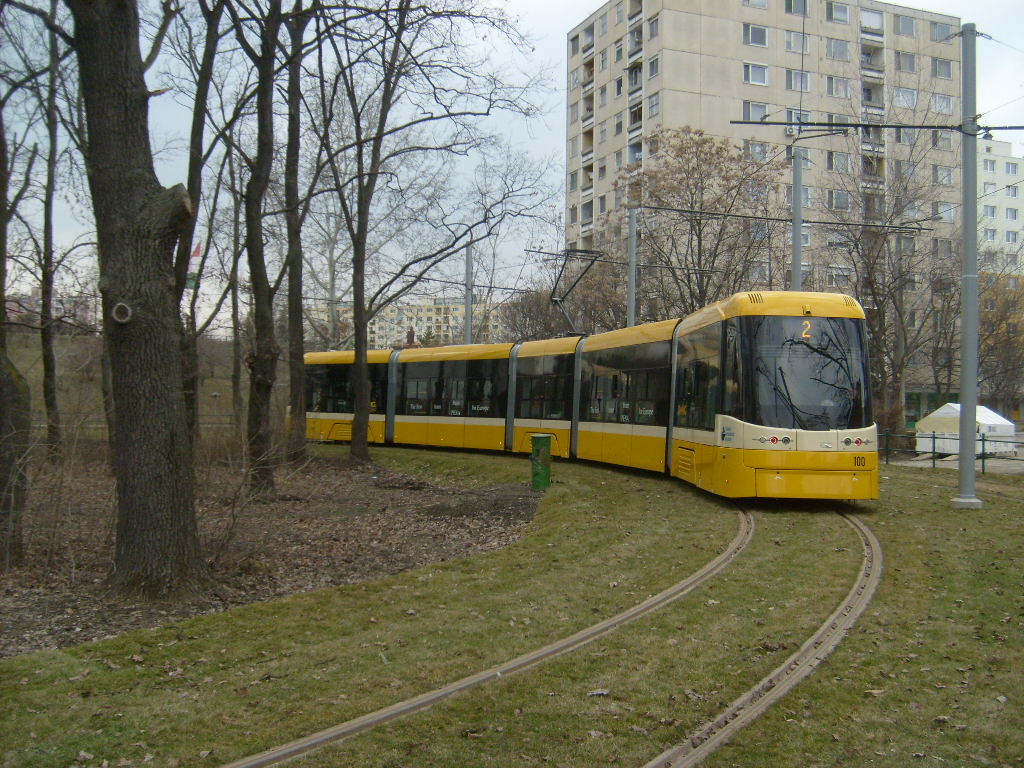 PESA 120Nb type tram